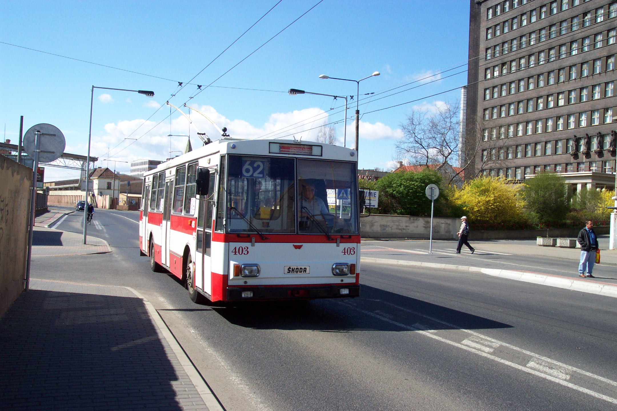 Ústí nad Labem, Revoluční street, trolleybus Škoda 14Tr